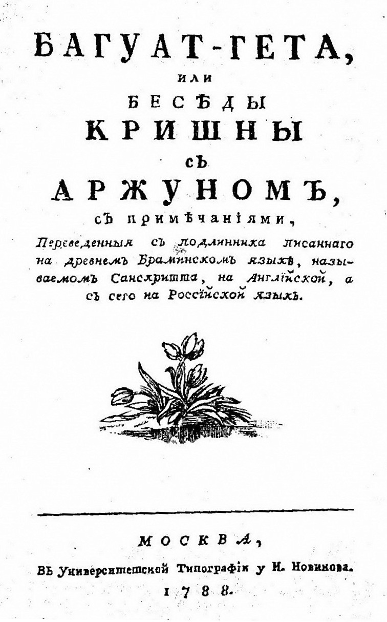 Bhagavad Gita. The first Russian translation.